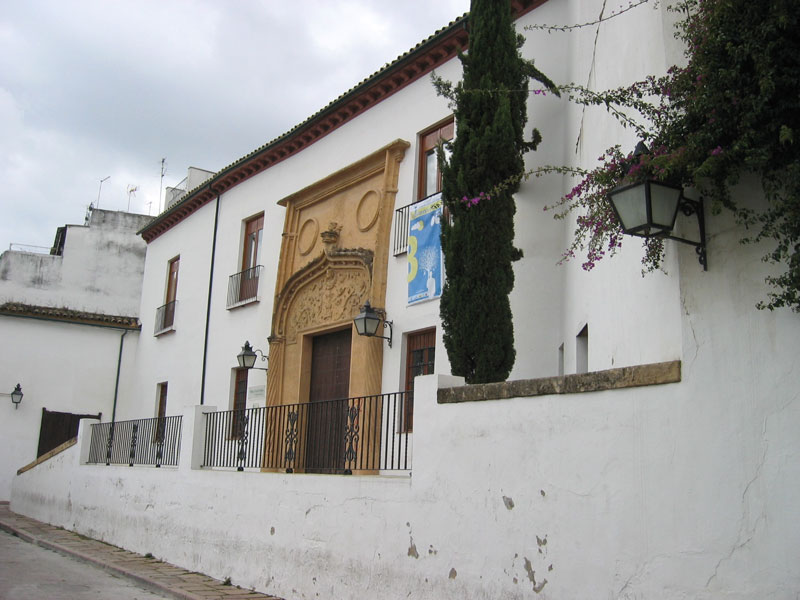 "Casa del Bailío" in Córdoba, Spain.